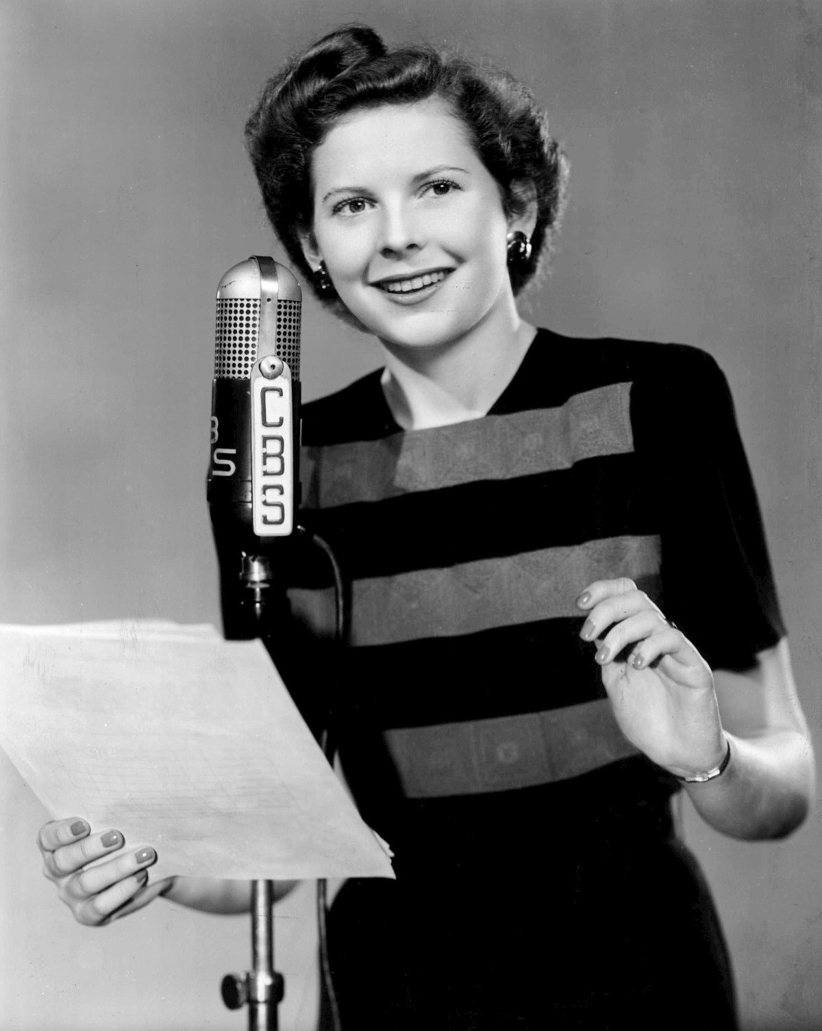 Photo of actress Virginia Dwyer.